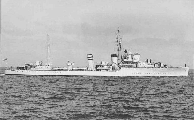 H87 HMS Hardy, flotilla leader of the Royal Navy H class destroyers